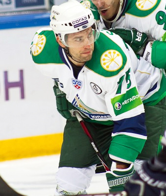 Salavat Ulaev Ufa player Richard Stehlík during KHL game against Amur Khabarovsk on September 23, 2011